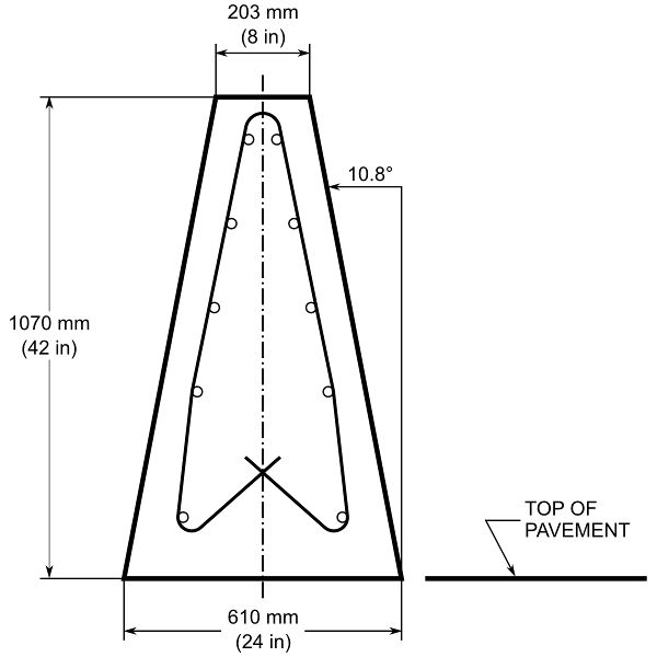 A cross-section diagram of a concrete constant-slope highway barrier. Converted to PNG from original JPEG by Vishwin60.Re-created from scratch on 19 August 2014, using Draftsight CAD and Inkscape by Hydrargyrum